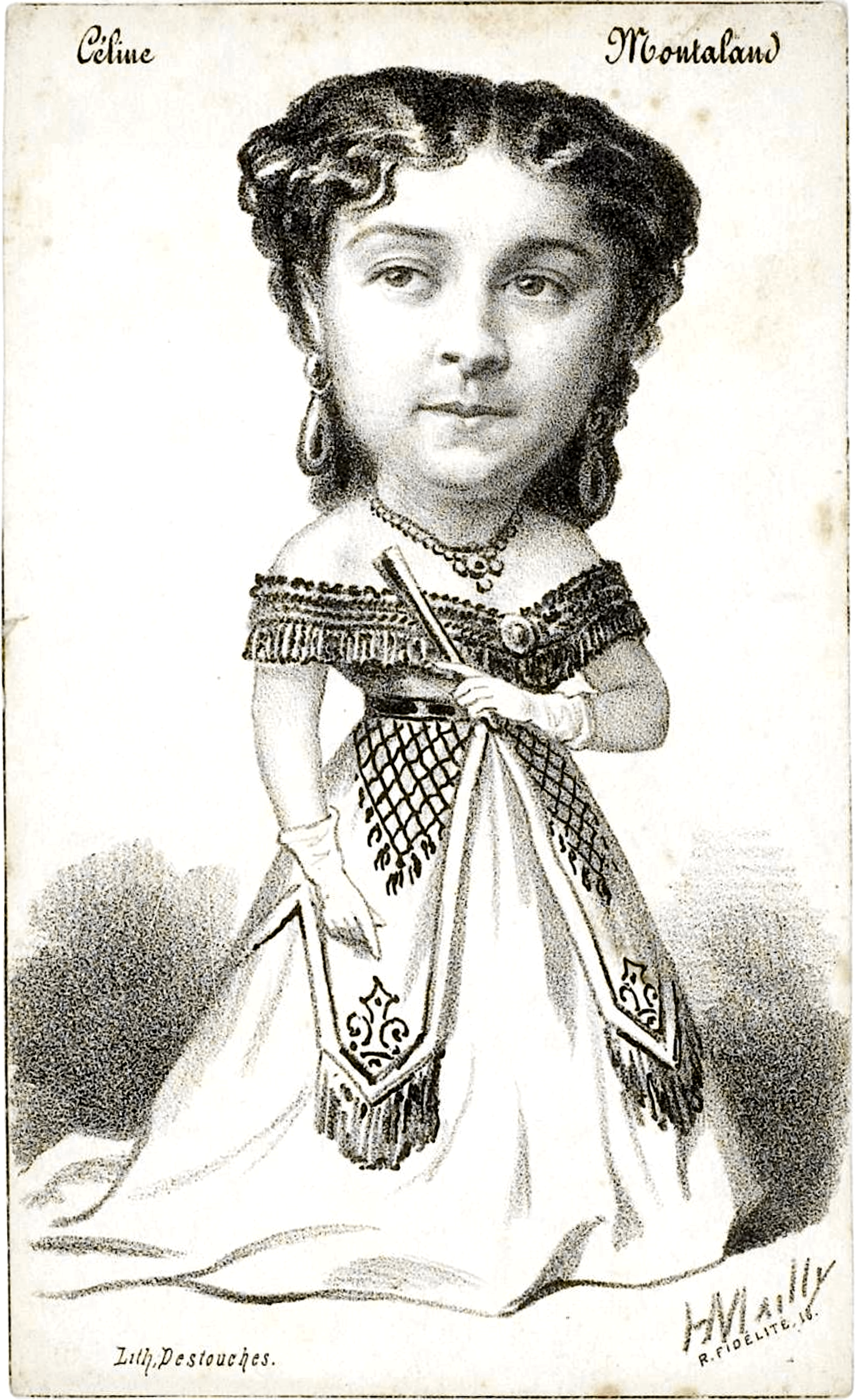 Caricature of Céline Montaland (1843–1891), French actor, dancer and singer by Hippolite Mailly.